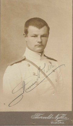 Finnish cooperative organizer Armas Helle (b. 1882). A former soldier of the Imperial Russian Army and a member of the Finnish Red Guards. Emigrated to the Soviet Russia after the 1918 Civil War of Finland.